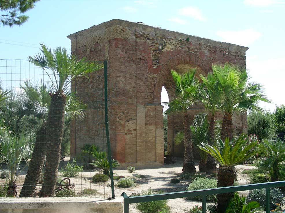 Italy, Canosa di Puglia, Roman Arc